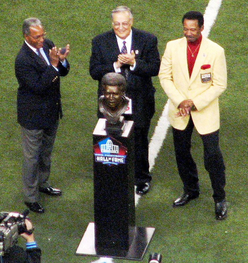 Detroit Lions legend Charlie Sanders receives his Pro Football Hall of Fame ring in a ceremony during the Thanksgiving Day game between Detroit and Green Bay in 2007 at Ford Field.